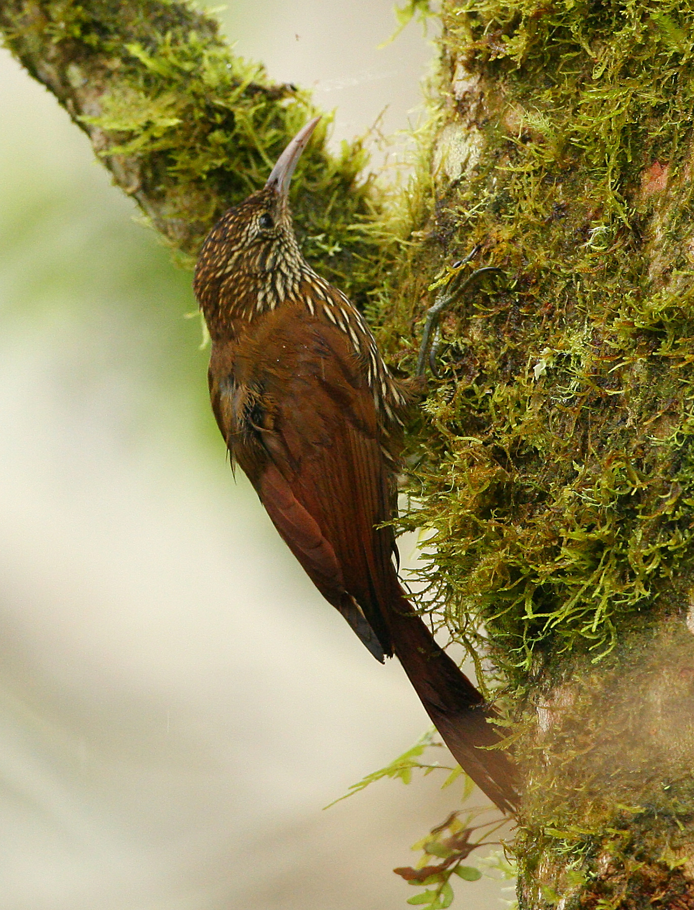 Montane Woodcreeper (Lepidocolaptes lacrymiger), Tandayapa Valley, NW Ecuador